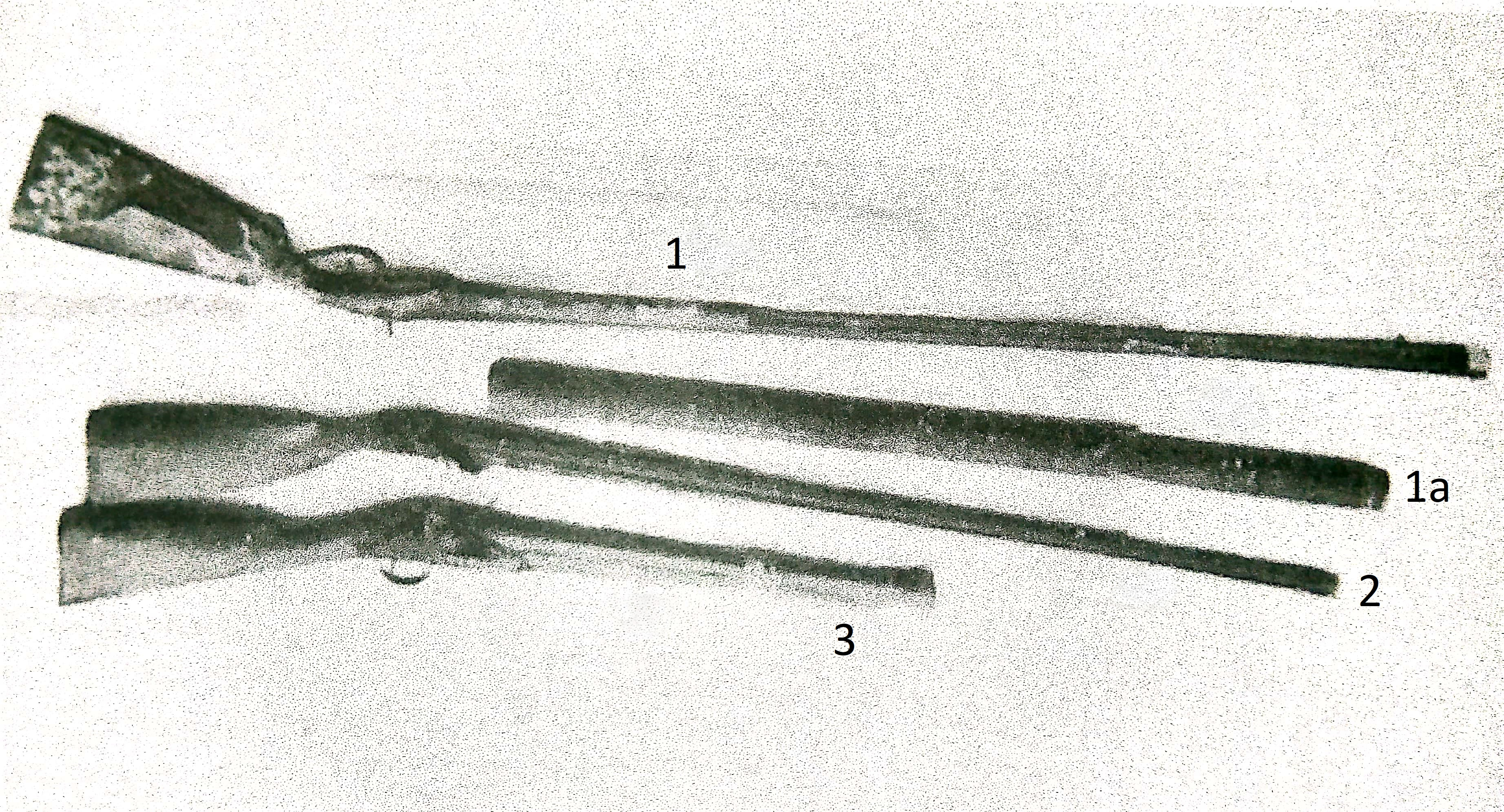 1. Long ornamented flintlock gun (senapang/senapan)1a. Bamboo and rattan case3. Flintlock gun (senapang/senapan)4. Brass blunderbuss (pemuras)